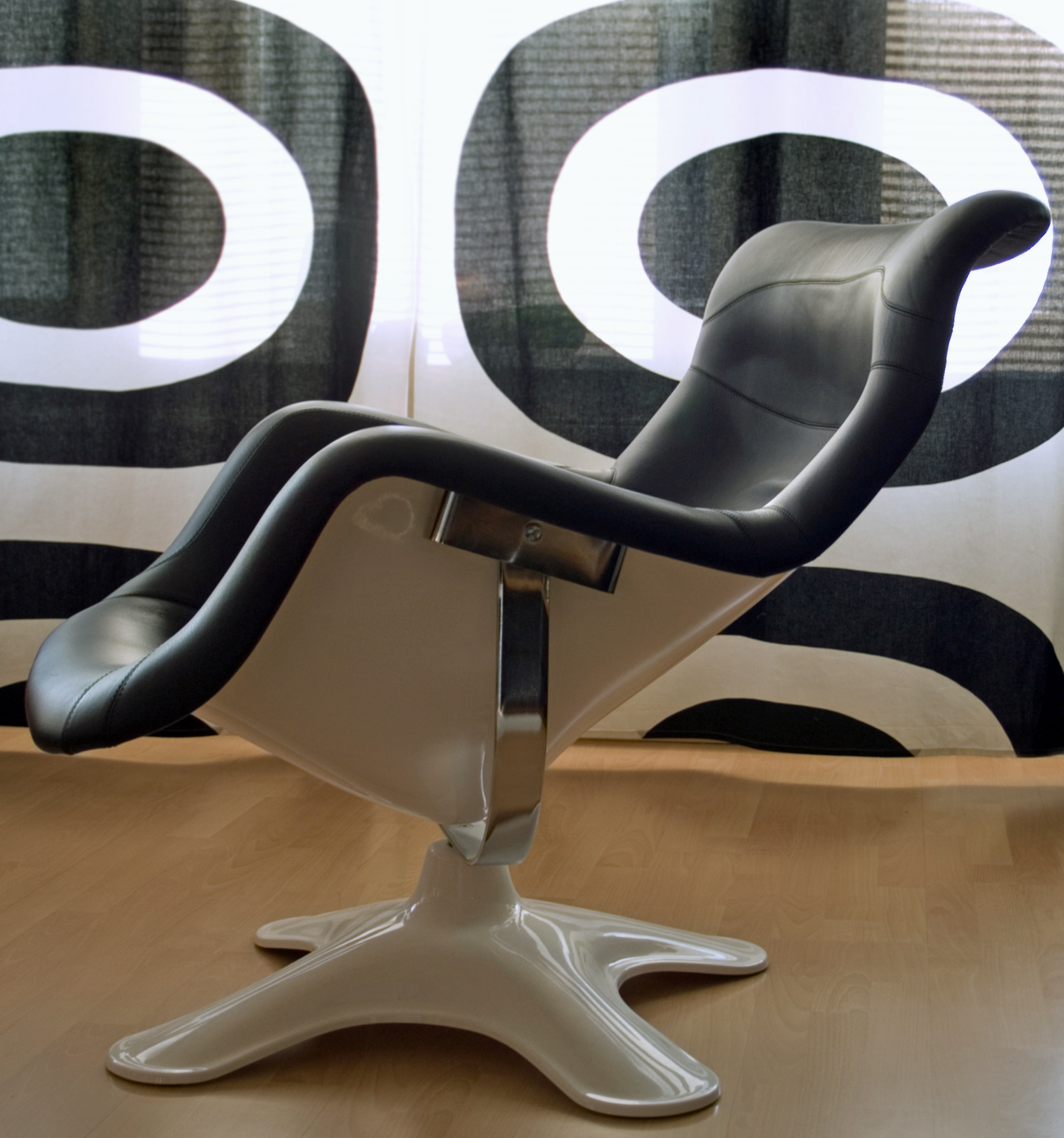 Karuselli armchair, leather and fiberglass reinforced plastic, designed by Yrjö Kukkapuro. In the background, Marimekko fabric Melooni by Maija Isola from the same era (mid-1960s).